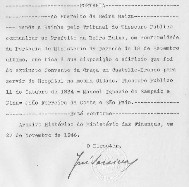 Portaria autorizando a Santa Casa da Misericórdia de Castelo Branco a instalar-se no Convento da Graça